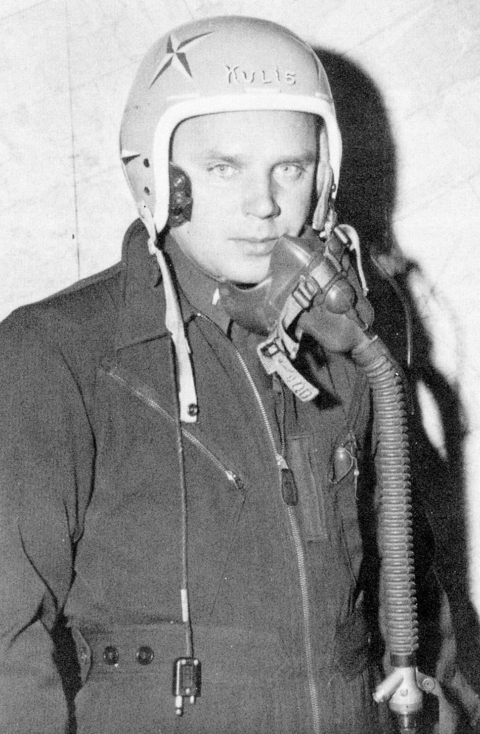 First Lieutenant Albert Kulis Kulis Air National Guard Base was named after he lost his life while flying his F-80C during a return flight from a night training mission